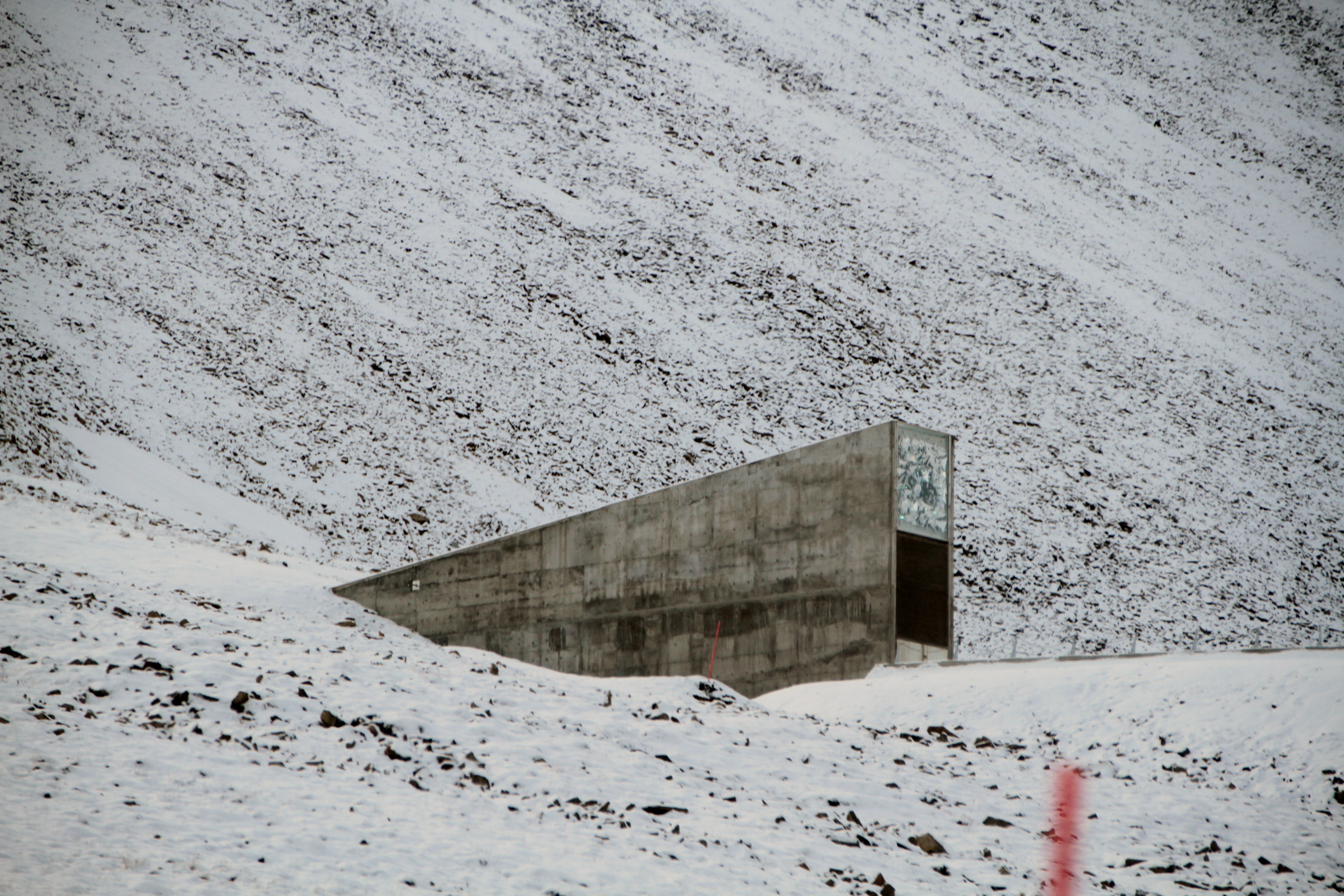 The svalbard global seed vault, established in a part of mine No 3, as a repository of the global plant diversity.